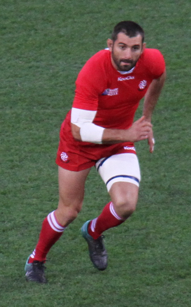 Georgian rugby union player Tedo Zibzibadze during 2011 Rugby World Cup against England.